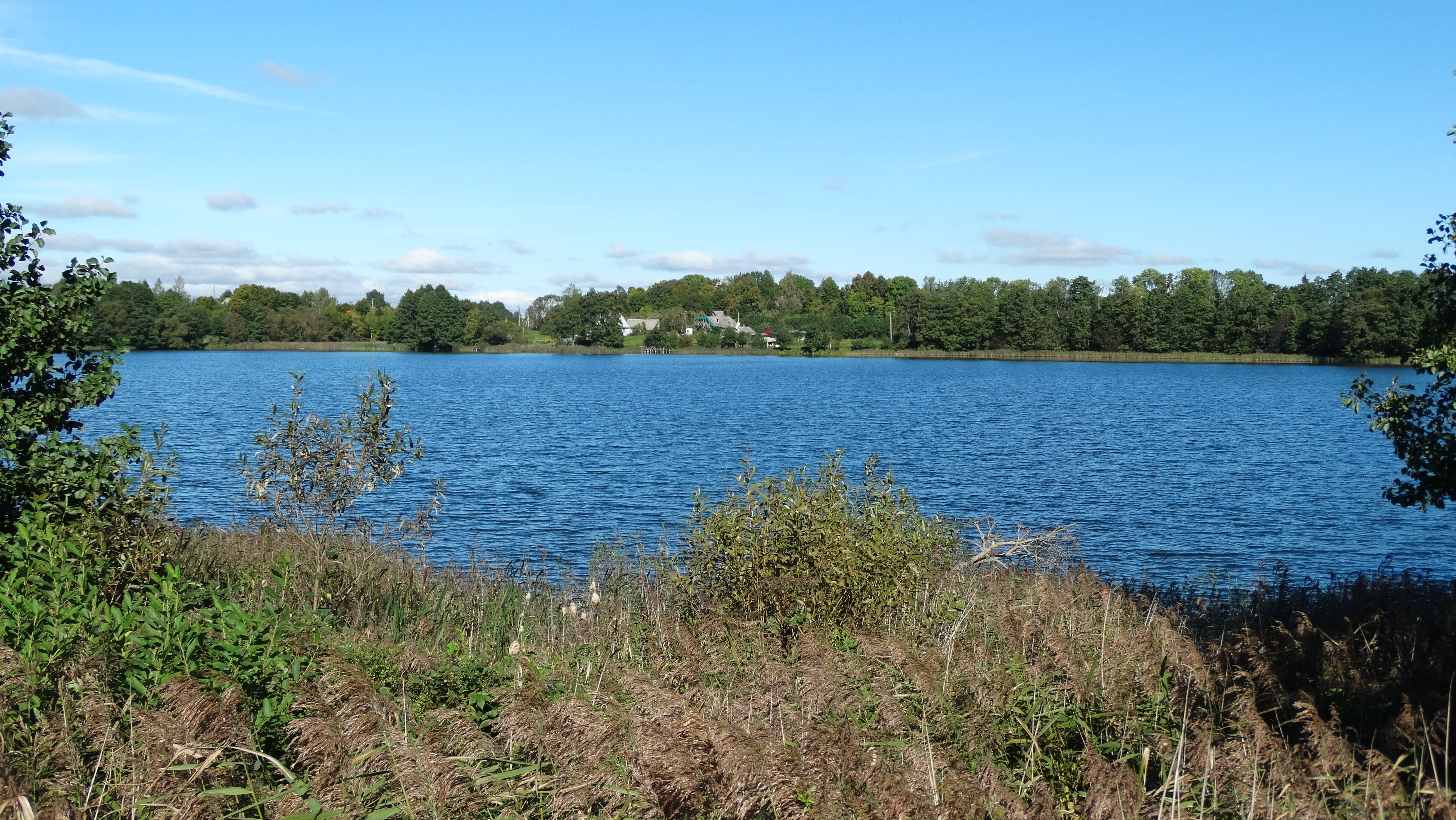 Persvėtaitis Lake, by Dūkšteliai, Ignalina District, Lithuania